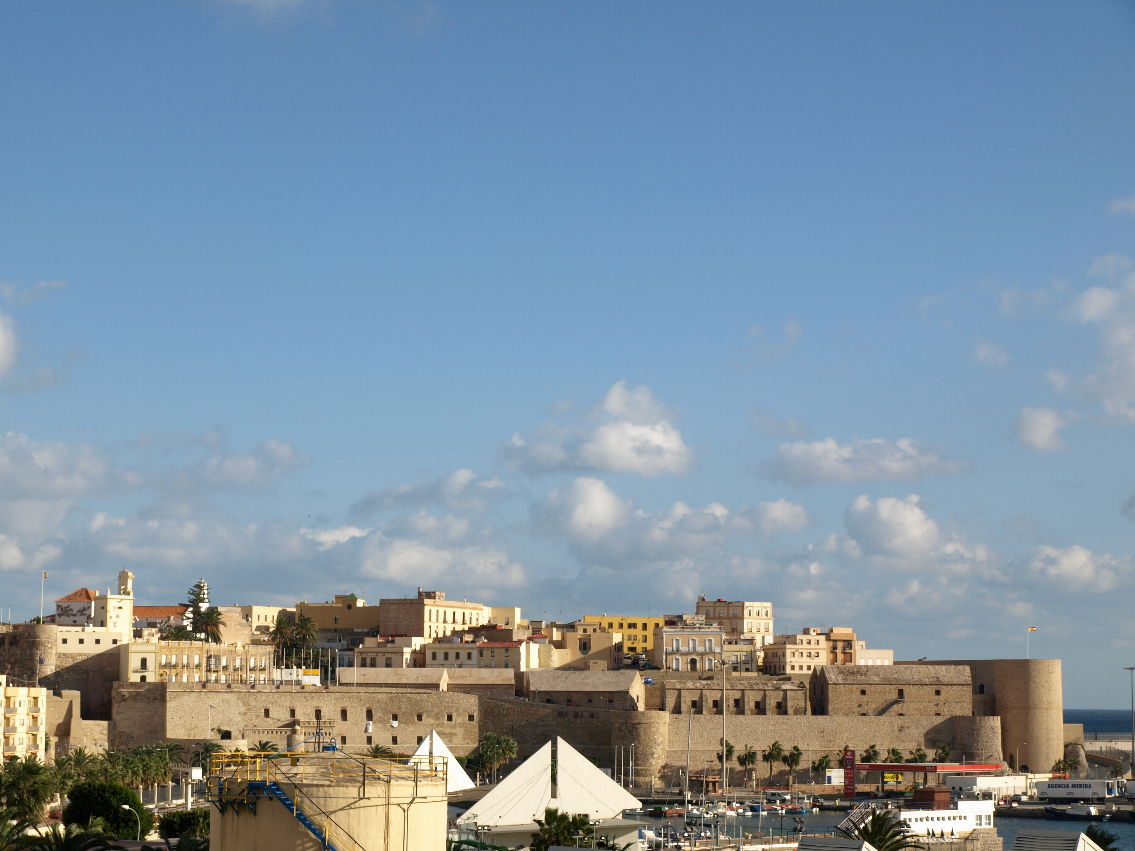 Melilla la Vieja, Melilla, Spain.